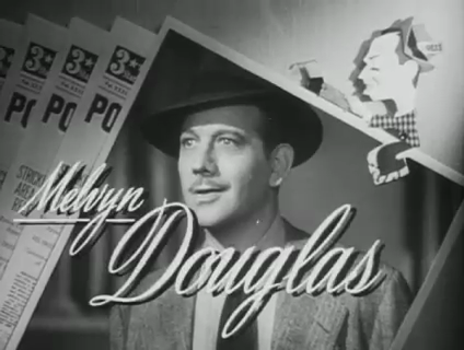 Melvyn Douglas in Three Hearts for Julia, by Richard Thorpe (1943)